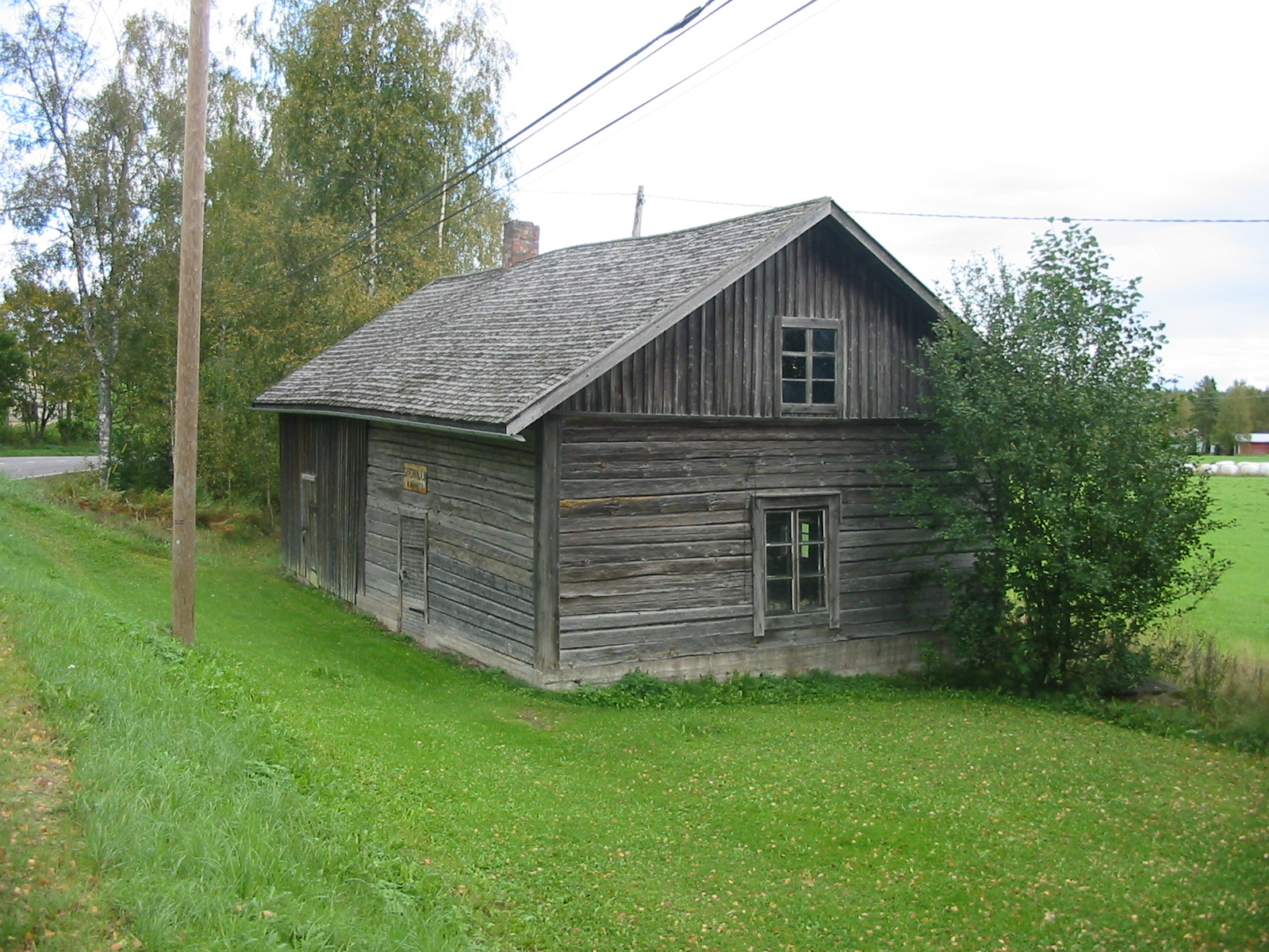 Pottery museum in Kultela, Somero, Finland. The museum is situated by the Häme Oxen Road (Hämeen Härkätie).